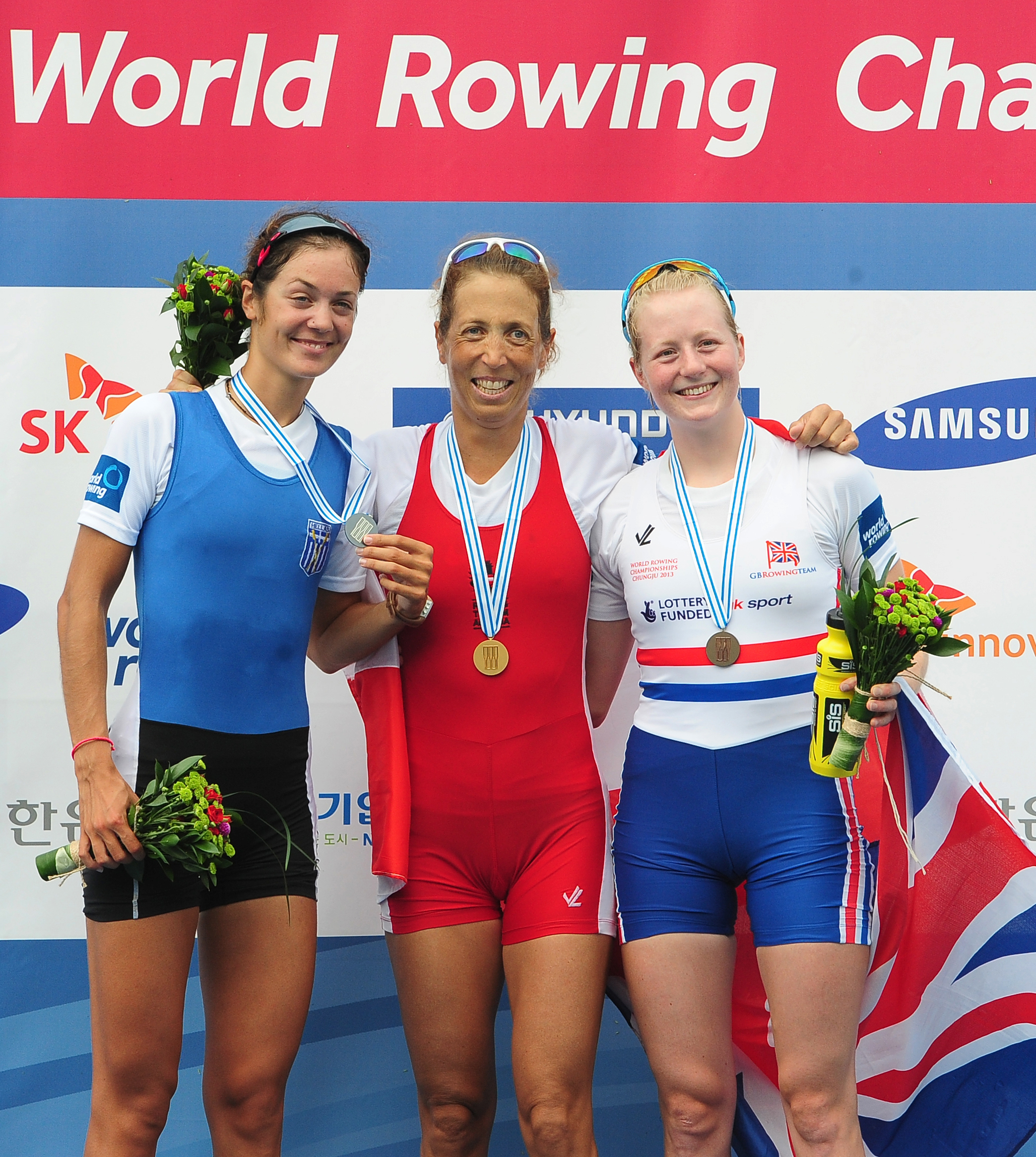 2013 Chungju World Rowing Championships